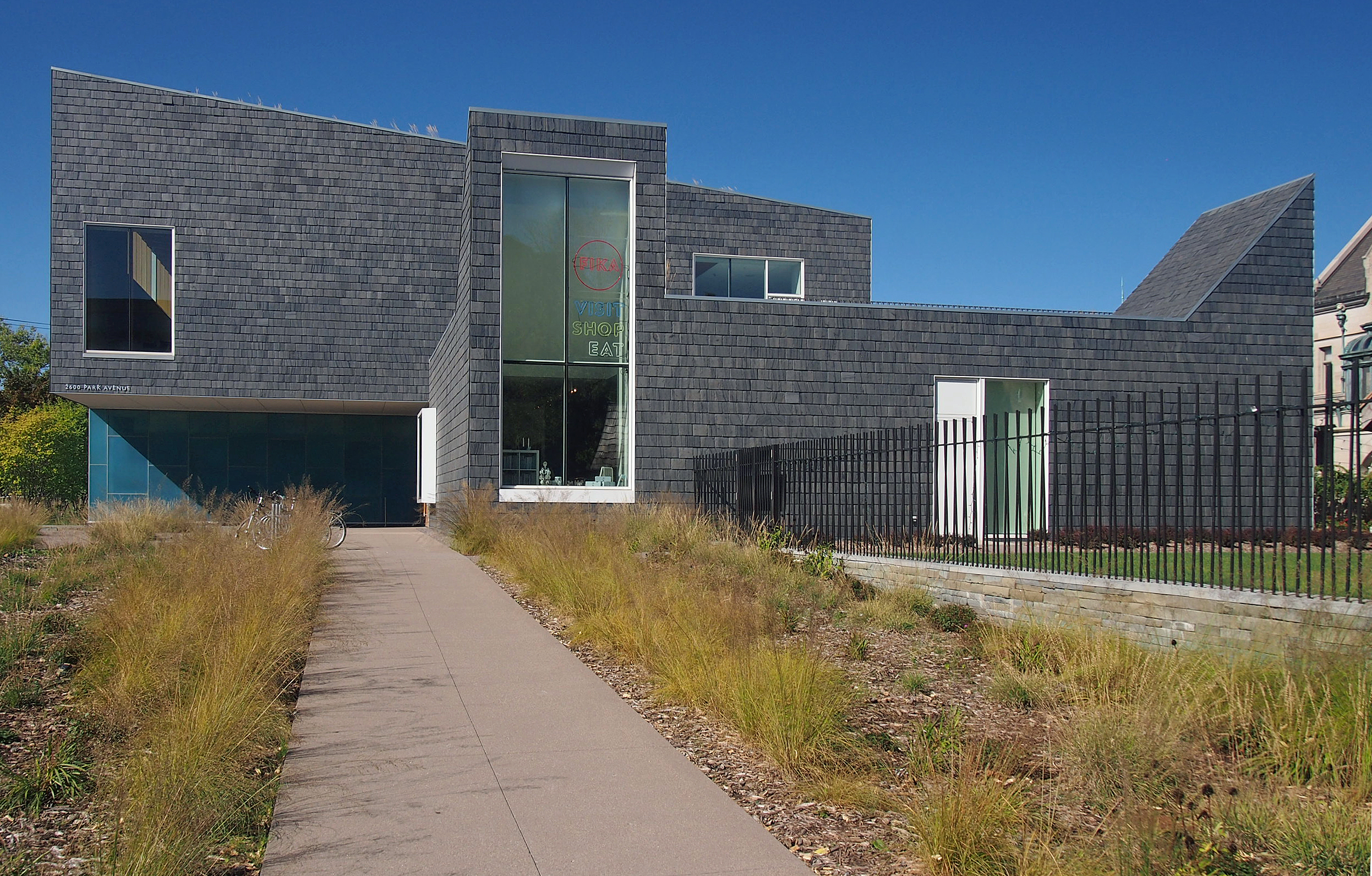 Nelson Cultural Center, American Swedish Institute, 2600 Park Ave, Minneapolis, Minnesota, USA. Viewed from the east.